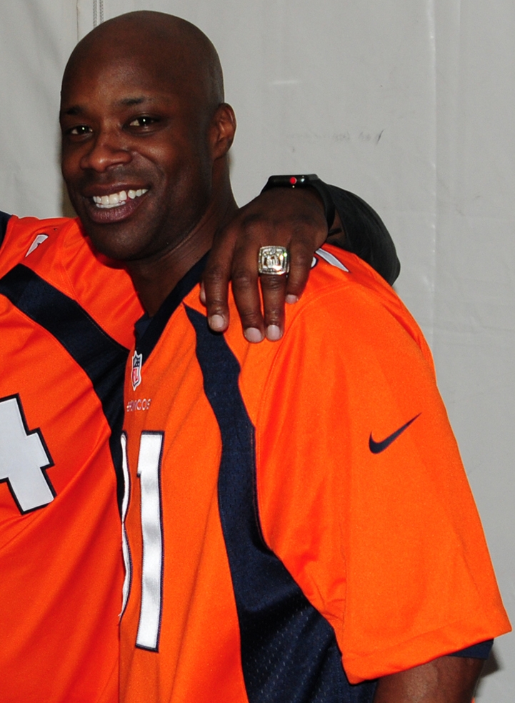 U.S. Army Pfc. Nancy Gamma assigned to the 115th Brigade Support Battalion, 1st Armored Brigade Combat Team, 1st Cavalry Division chats with retired football players as part of a USO meet and greet with the Denver Broncos cheerleaders, mascot and Alumni football players at the Camp Aachen USO annex in Grafenwoehr, Germany, Jan. 26, 2019. IRONHORSE deployed in support of Atlantic Resolve, an enduring exercise to improve interoperability between U.S. Forces, their NATO allies and partners. (U.S. Army National Guard photo by Sgt. 1st Class Robert Jordan, 382nd Public Affairs Detachment/ 1st ABCT, 1st CD/Released)